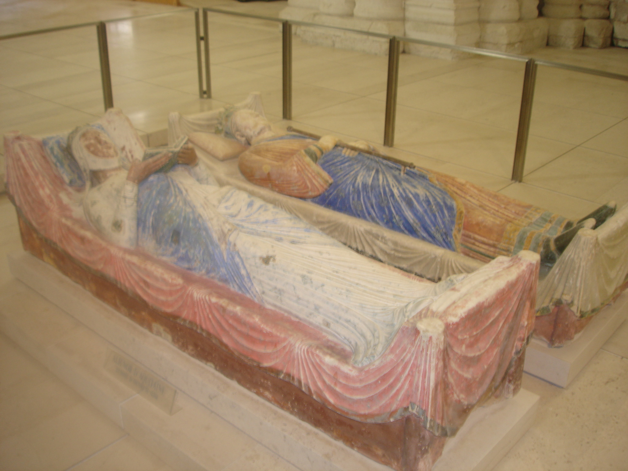 Fontevraud Abbey, tombs of Eleanor of Aquitaine and Henry II of England